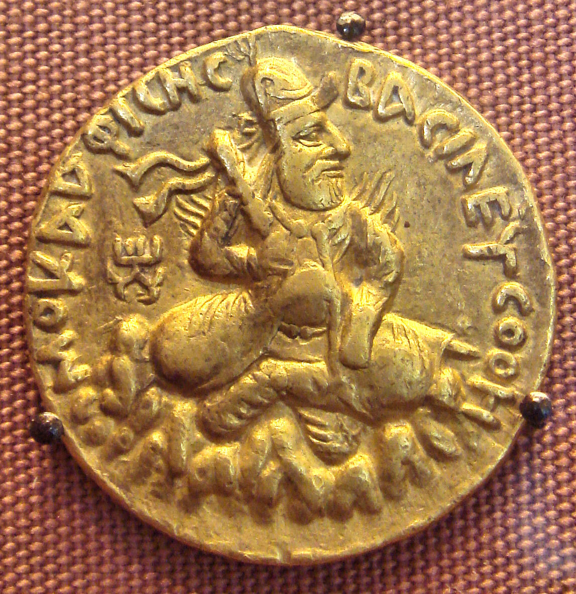 Coin of Wima Kadphises (reigned around 110-20 CE). British Museum. Personal photograph 2006.